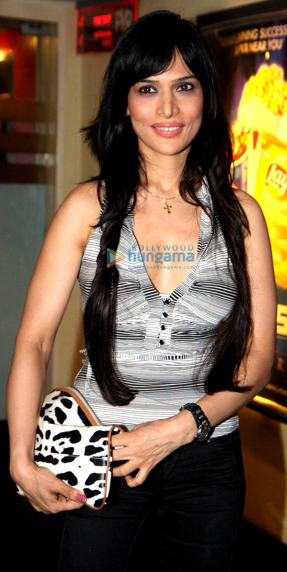 Anupama Verma at the premiere of 'The Saint'